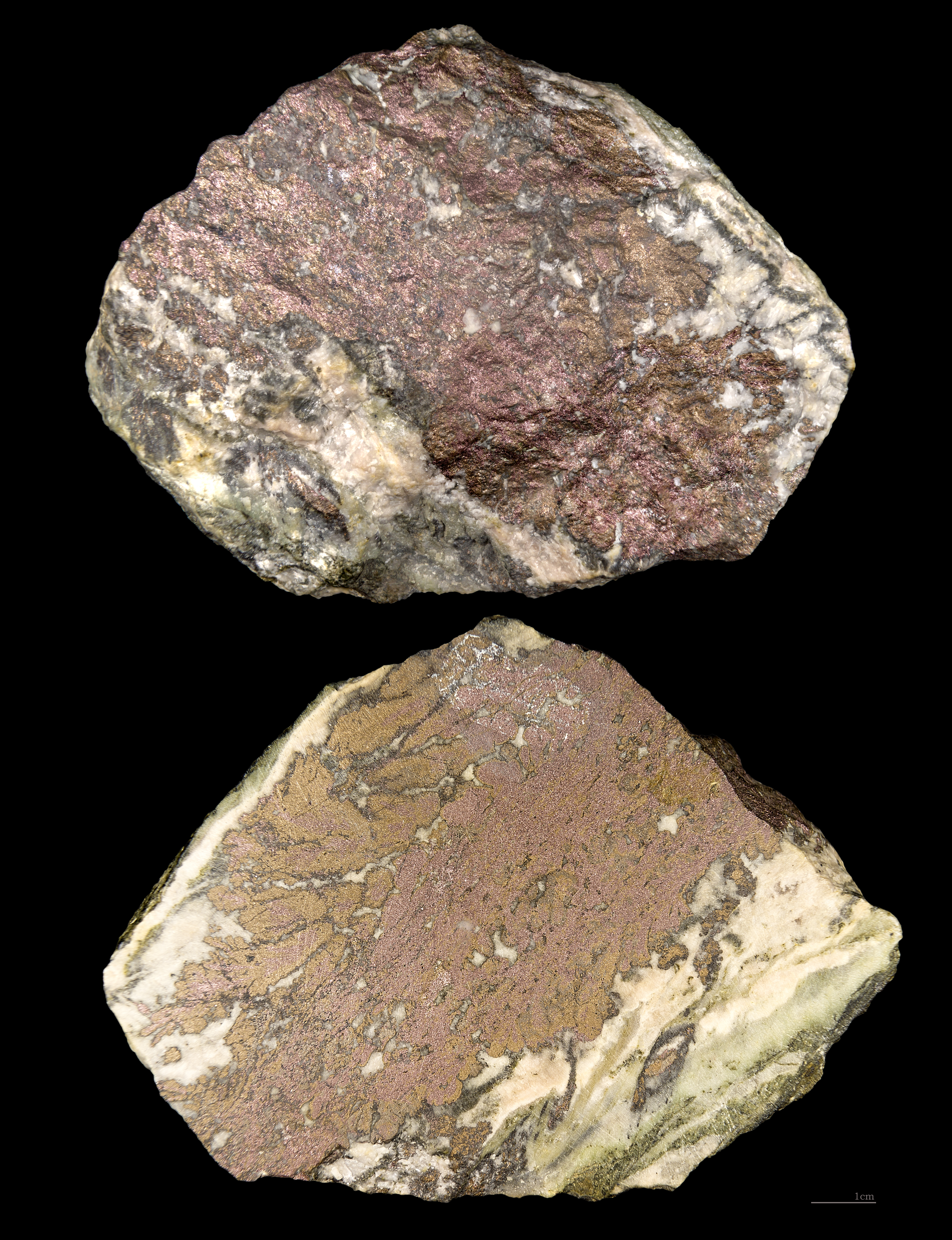 Breithauptite - Cobalt area, Cobalt-Gowganda region, Timiskaming District, Ontario, Canada - Two views of same specimen